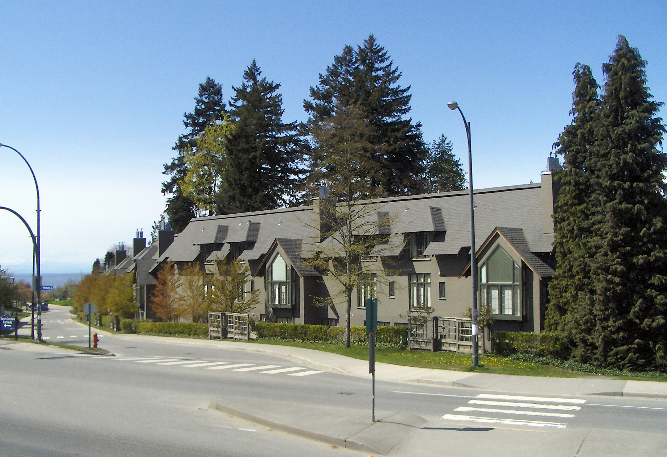 Exterior view of residential buildings at Green College, University of British Columbia, looking down Cecil Green Park Road from the south.